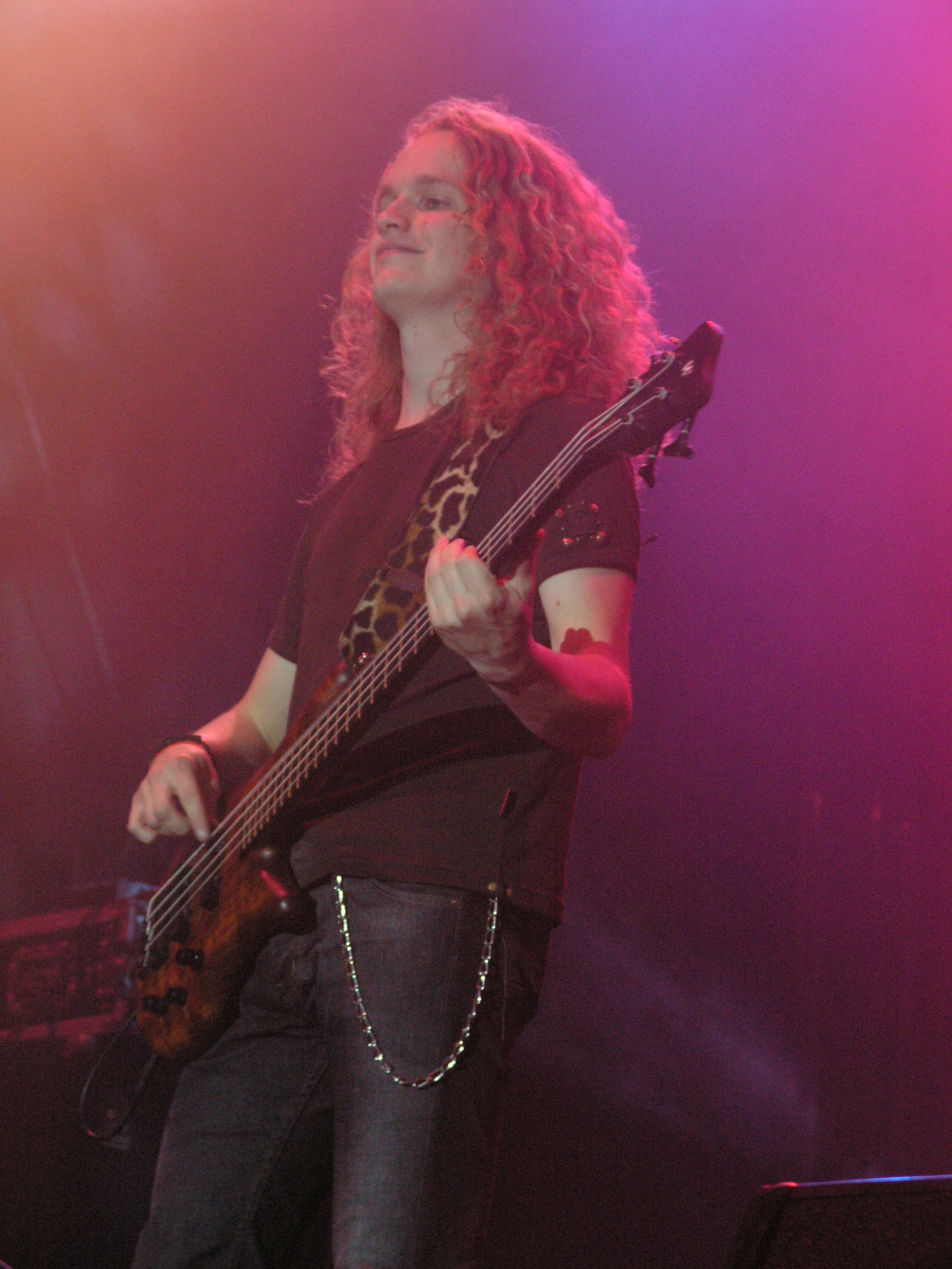 Luuk van Gerven from After Forever during Masters of Rock 2007 festival